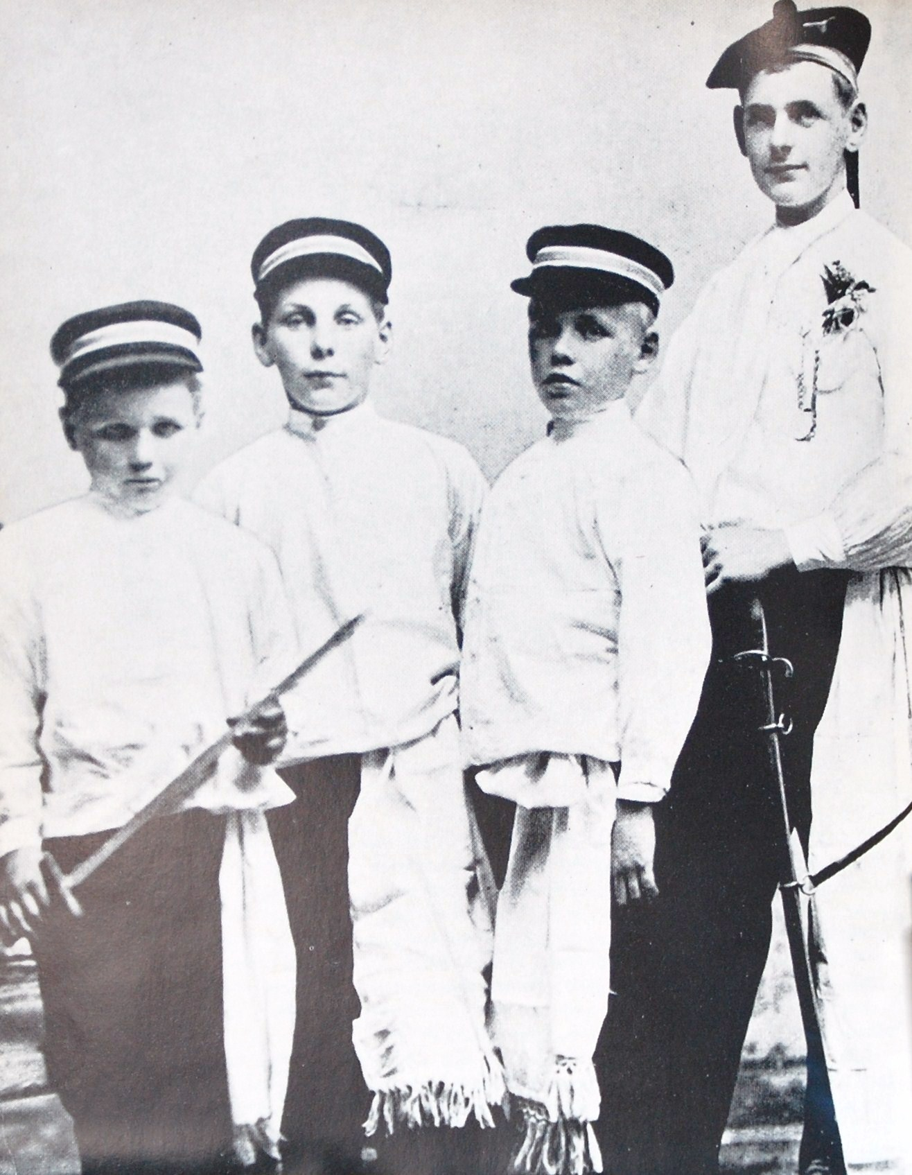 Photo of four brothers of the defunct buekorps "Krohnvikens Bataljon", 1899.